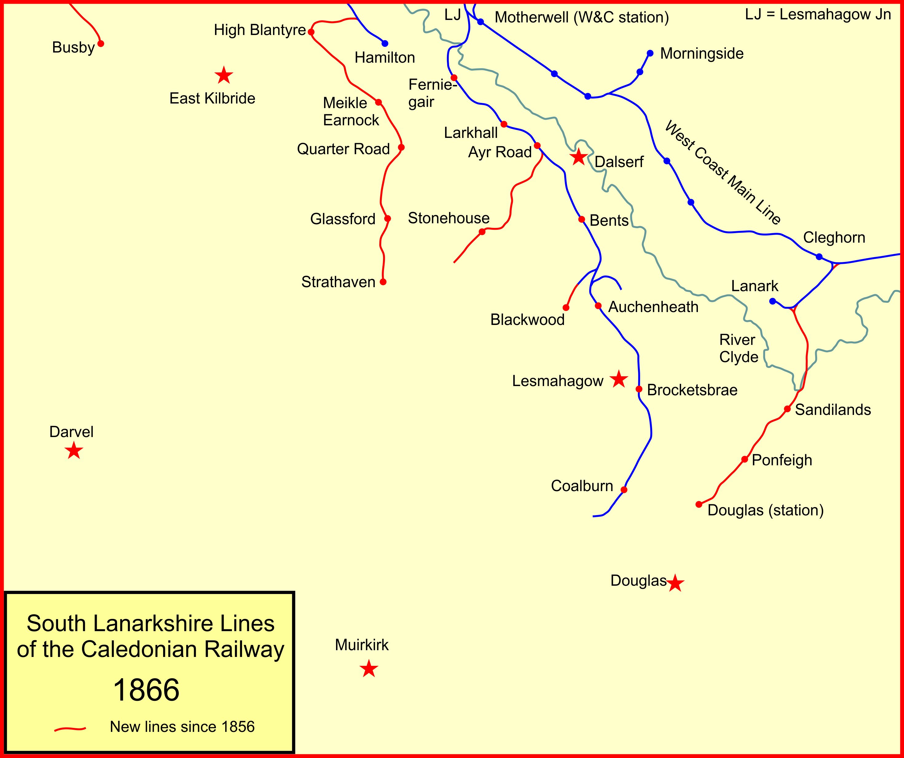 The railway network in South Lanarkshire in 1866